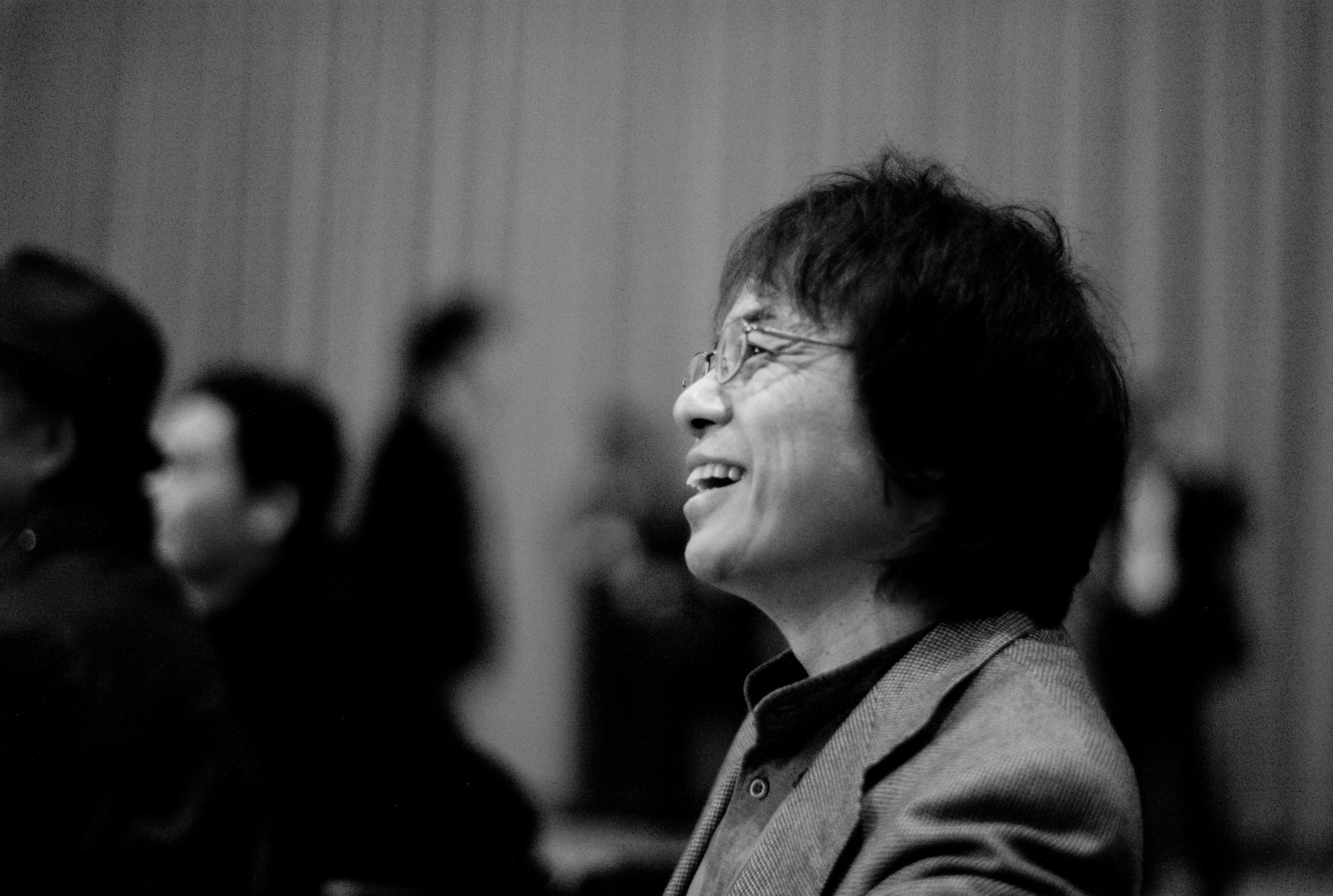 Keiji is an anthropologist.